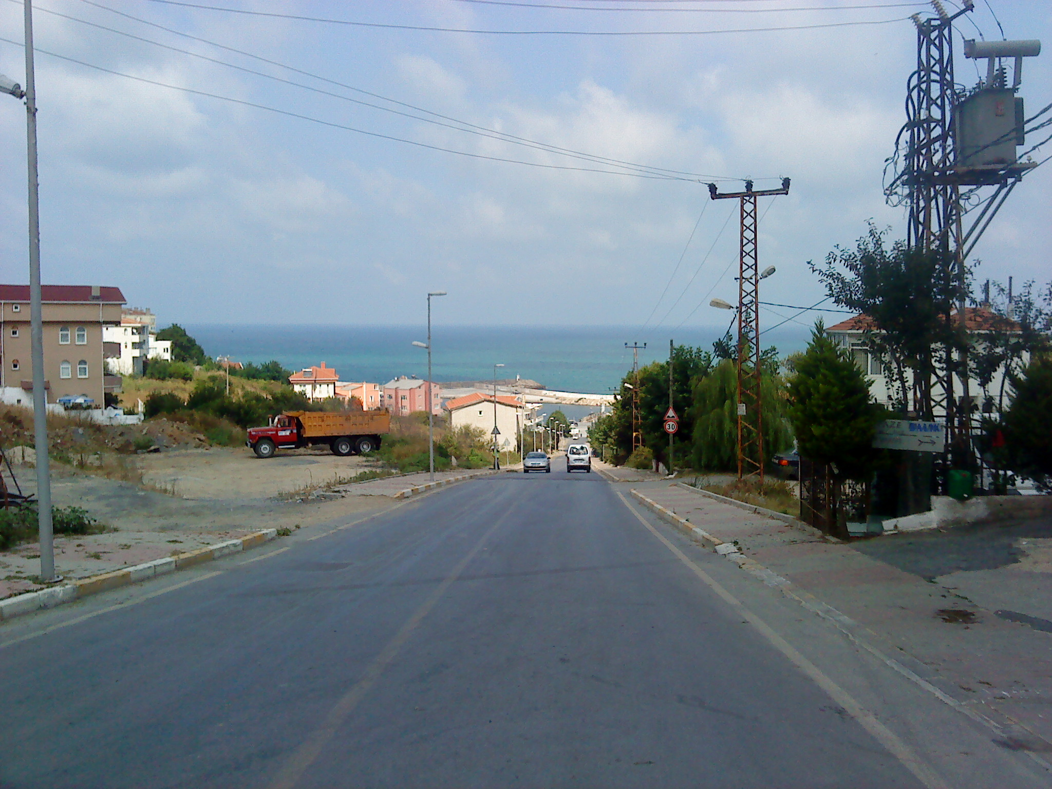 The turkish village Karaburun near Istanbul at the Black Sea.